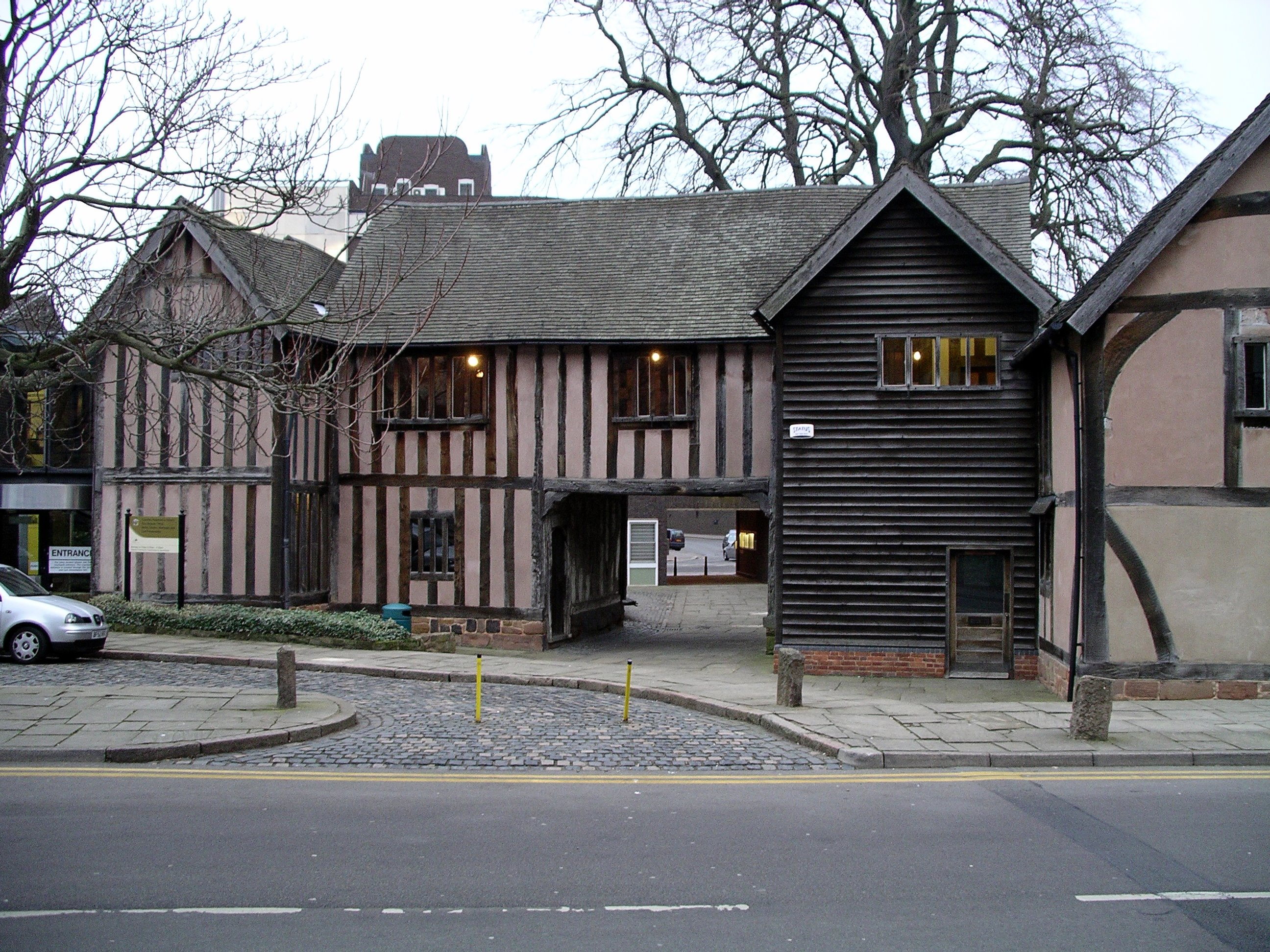 Photo taken on 29 January 2007 of the front of Cheylesmore Manor, Coventry, England.